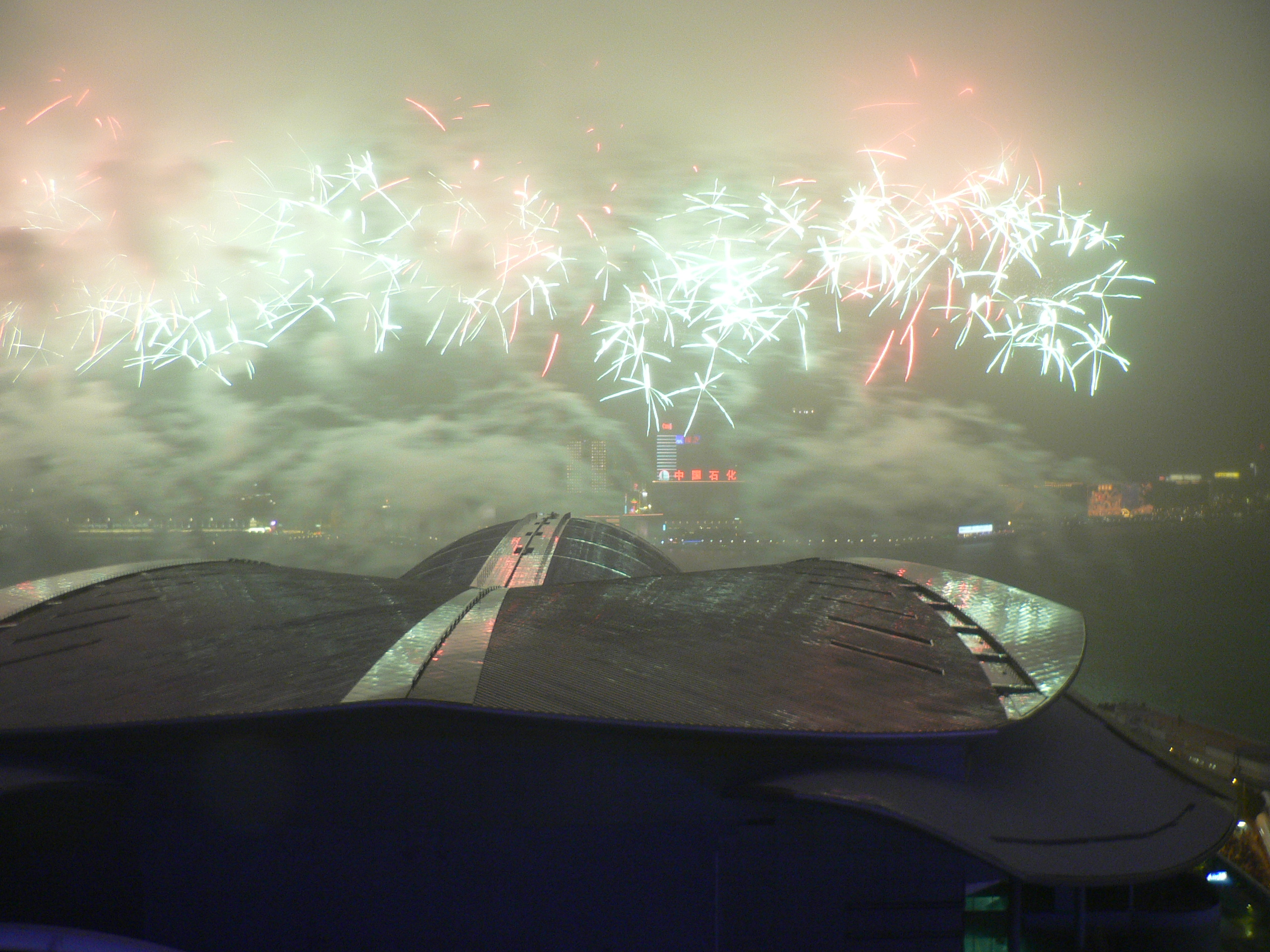 Hong Kong Lunar New Year Fireworks 2007, Author: KC Kong , own creation